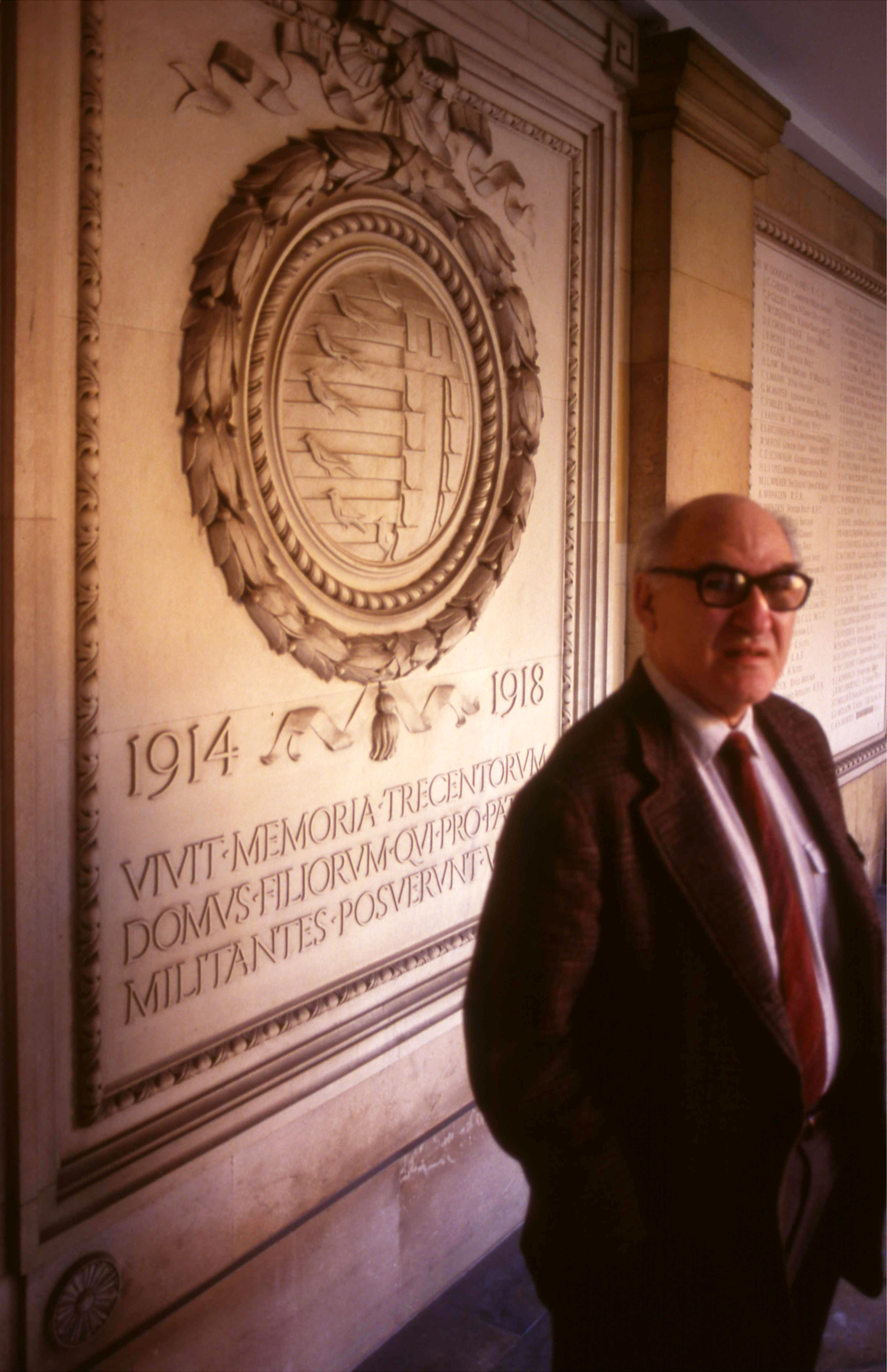 George L. Mosse, as a visiting professor at Cambridge University, photographed at Pembroke College near the War Memorial to the dead of the First World War (1914-1918). The Latin inscription reads: Vivit memoria trecentorum domus filiorum qui pro patria militantes posuerunt vitam (The memory of the three-hundred sons of this house who gave their lives as soldiers for their country lives on.)